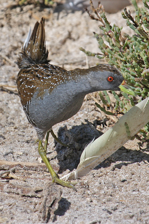 Australian Crake (Porzana fluminea), Strzelecki Track, South Australia